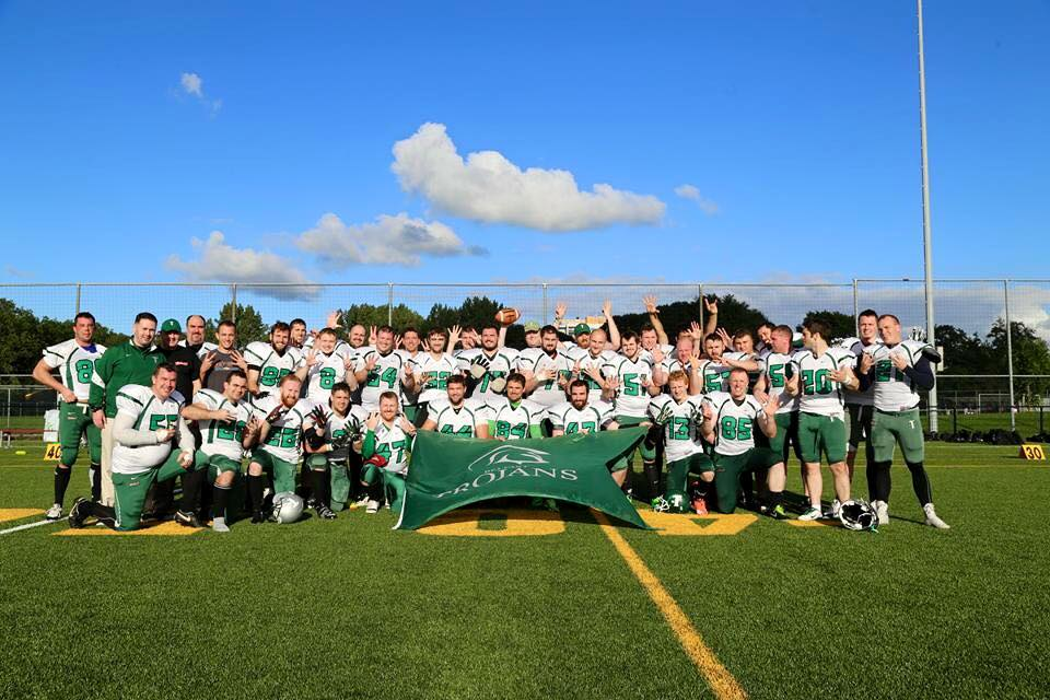 Victory in Europe. The Belfast Trojans become the first Irish team to win an Atlantic Cup on the continent